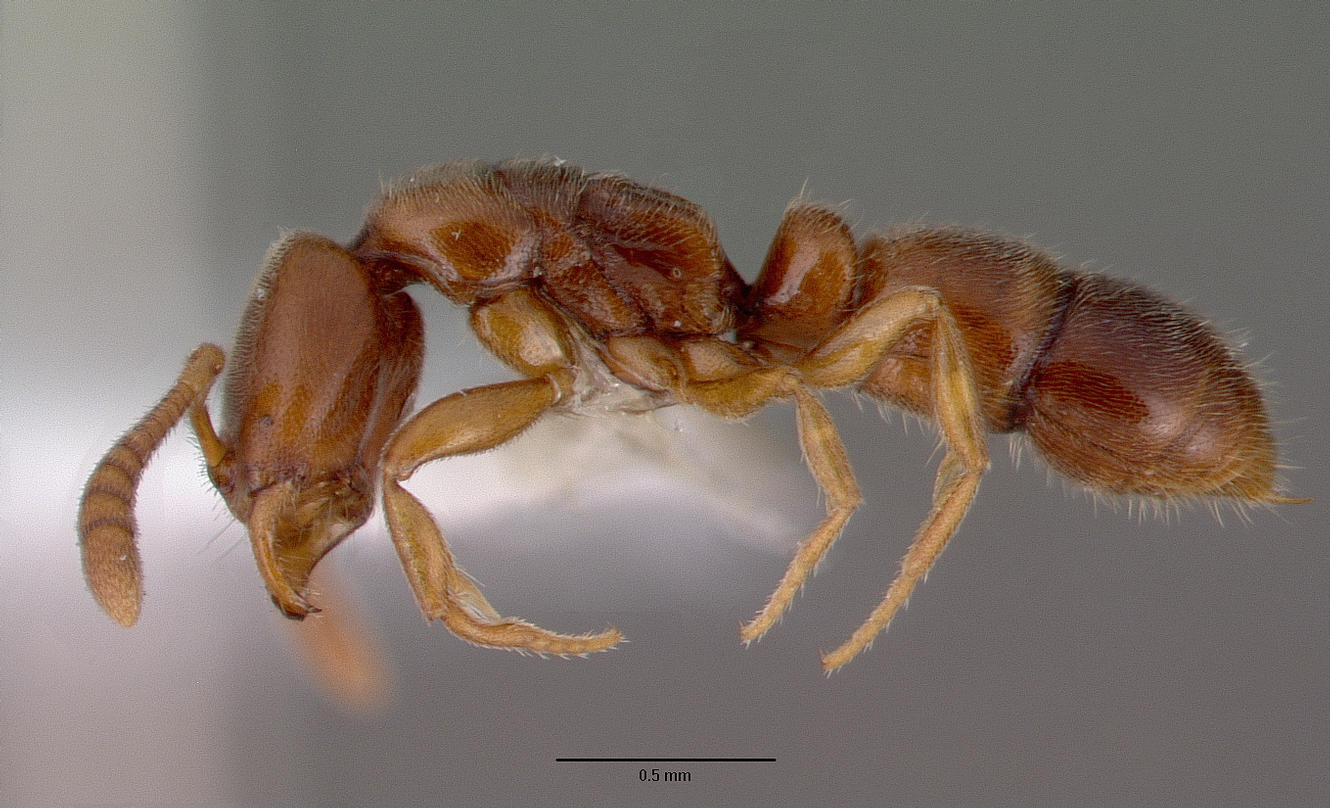 Profile view of ant Ponera coarctata specimen casent0008634.